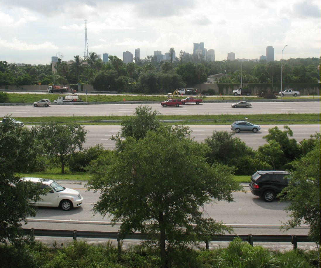 Fort Lauderdale seen from the Amtrak/Tri Rail station. I-95 is in the foreground. Foliage has recovered nicely from hurricane Wilma/Katrina, and trees now block out all but the tallest buildings. Taken in mid morning, facing east, approx. 2-3 miles from downtown.